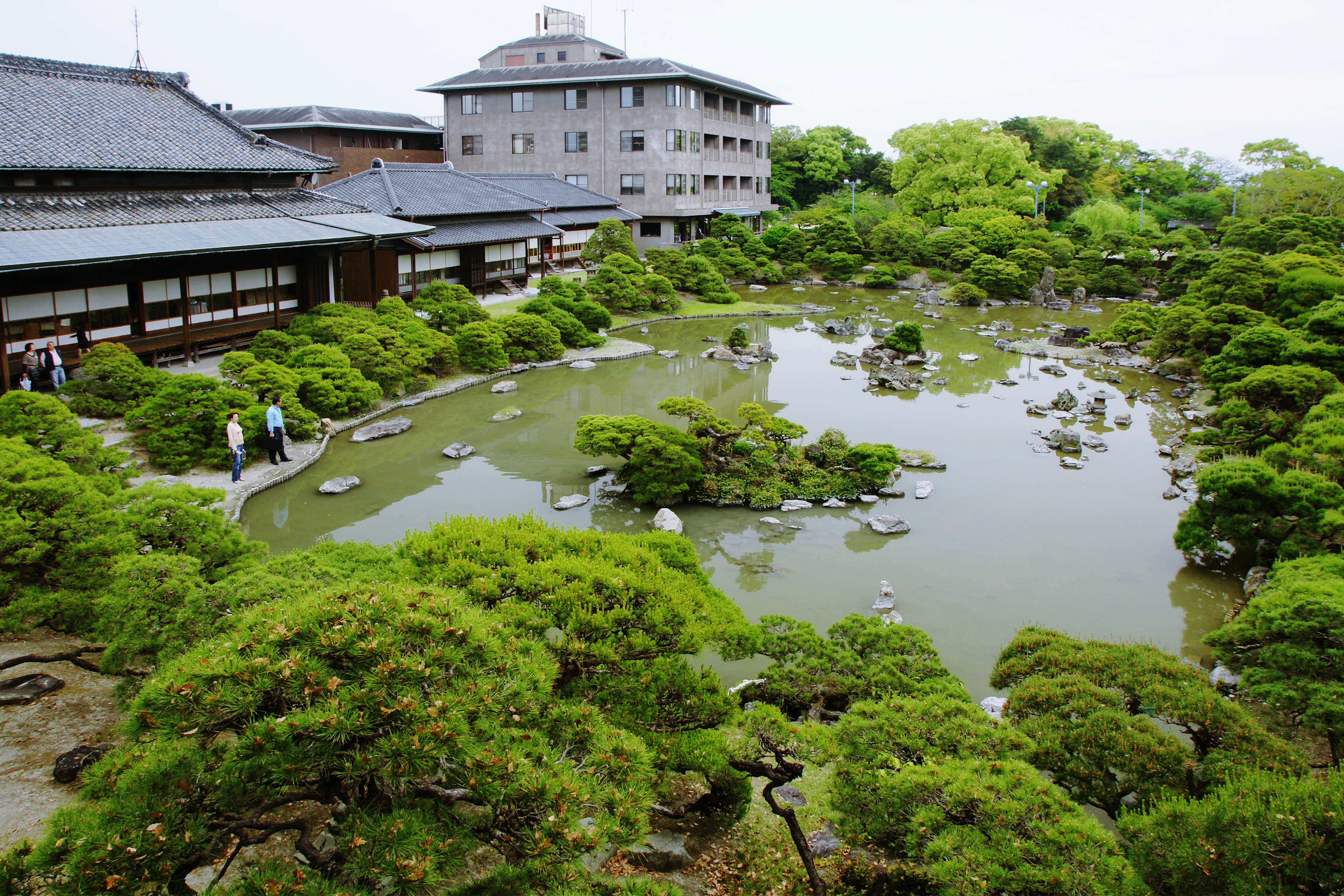 Ohana, Yanagawa, Fukuoka prefecture, Japan